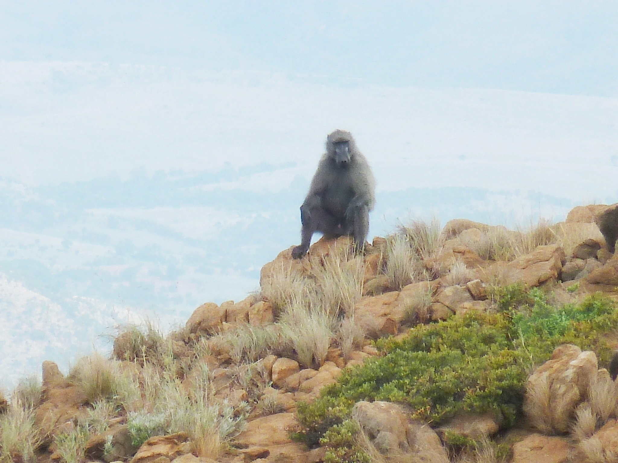 Male sentinel Chacma baboon at Dewetsnek in the Magaliesberg